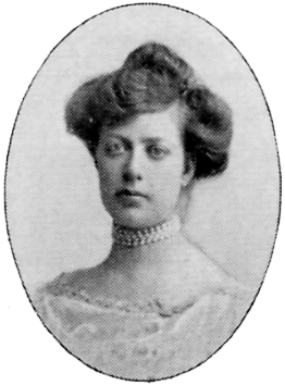 Image scanned from the book "Svenskt Porträttgalleri XX - Arkitekter, Bildhuggare, Målare m.fl. " ("Swedish Portrait Gallery XX - Architects, Sculptors, Painters, ") published 1901